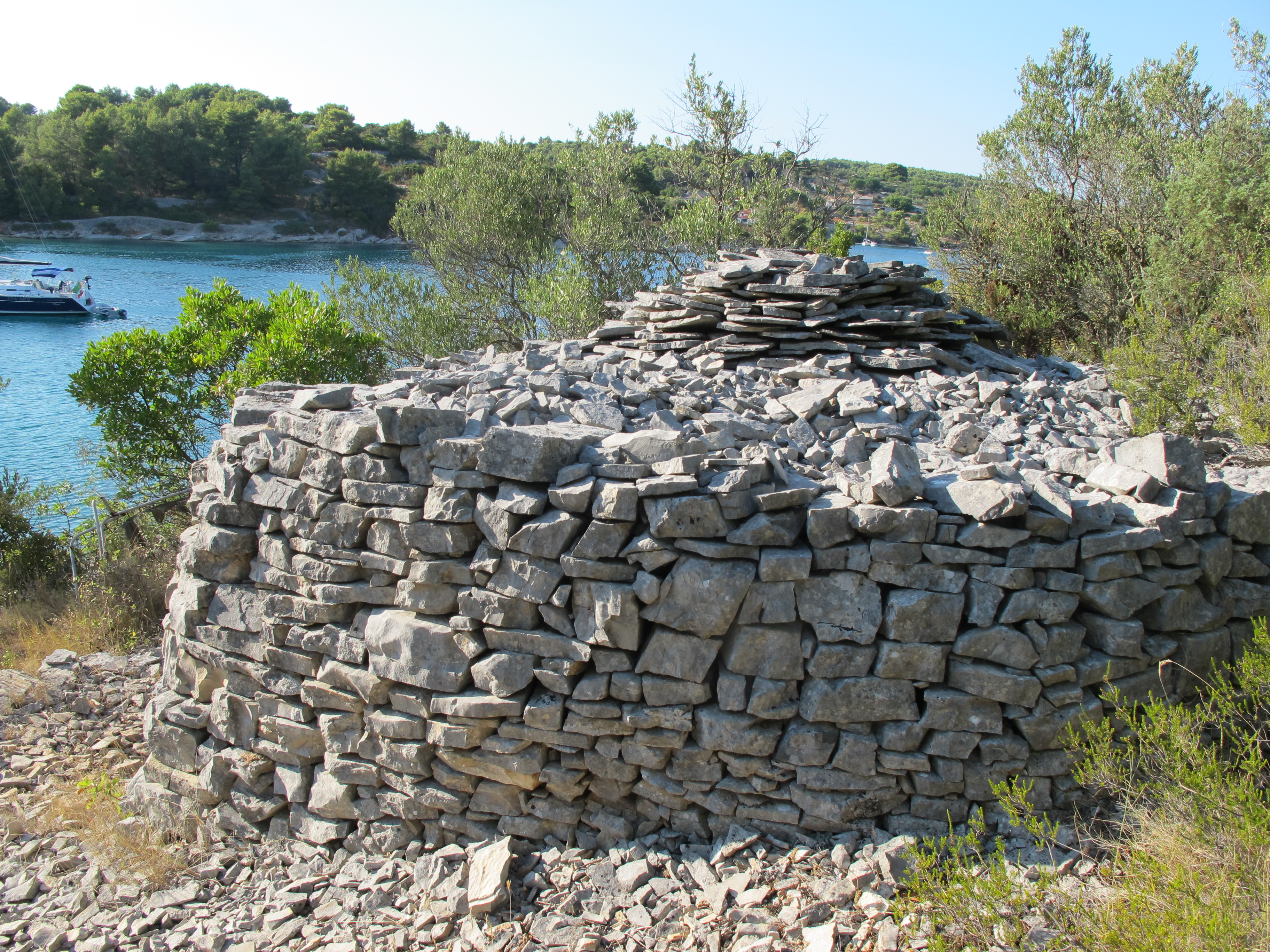 Bunja in U Maslinica part of the bay of Nečujam Šolta / Croatia / Adriatic Sea. Bunjas are single-room, without windows, without wood built round stone cottage with a round roof of limestone piled up. The design has Neolithic origin and was used until the modern era as a tool and storage shed. Bunjas were built of limestone.